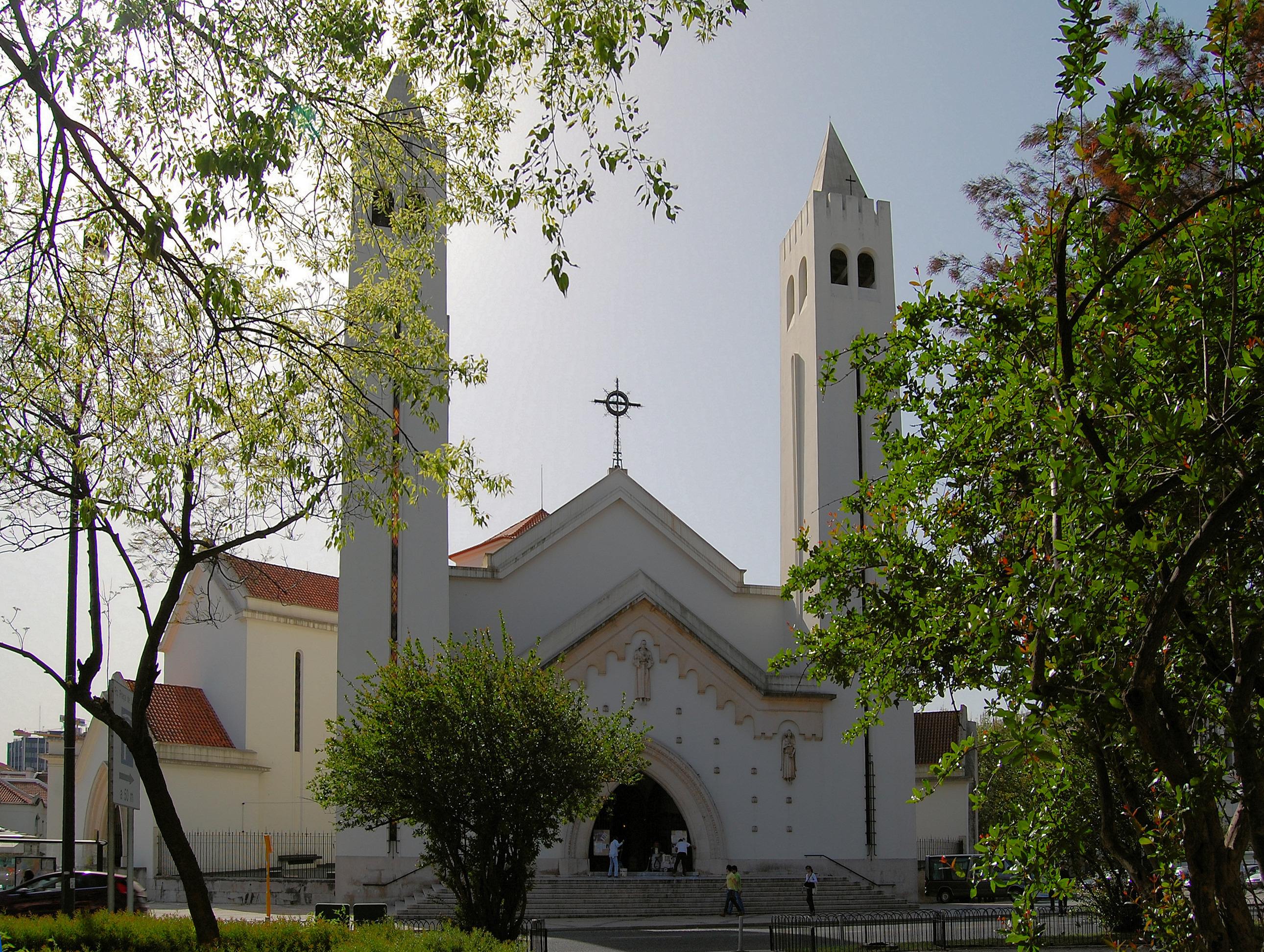 Church of Saint John of God in Lisbon, Portugal